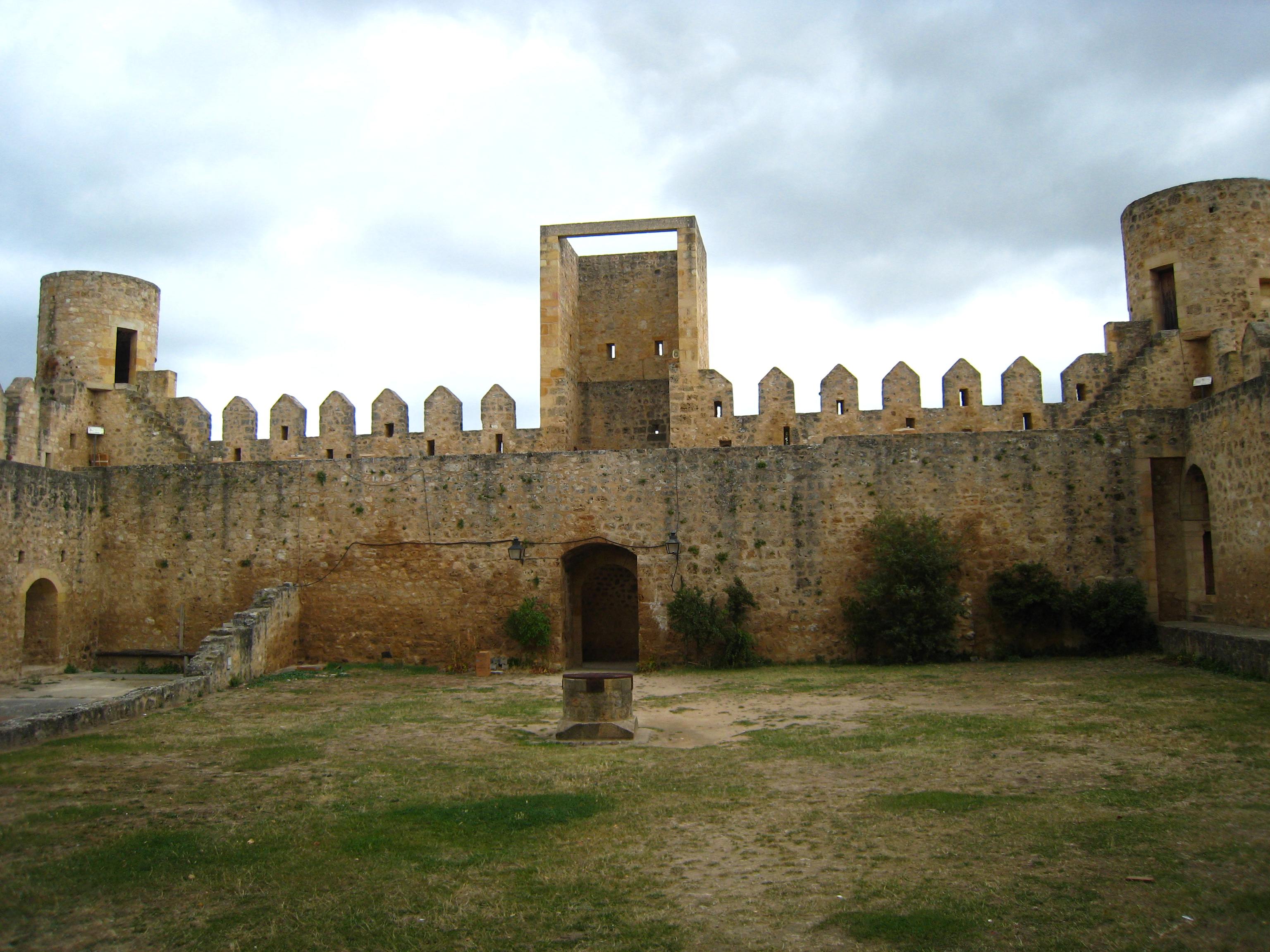 Google Maps - Google Earth